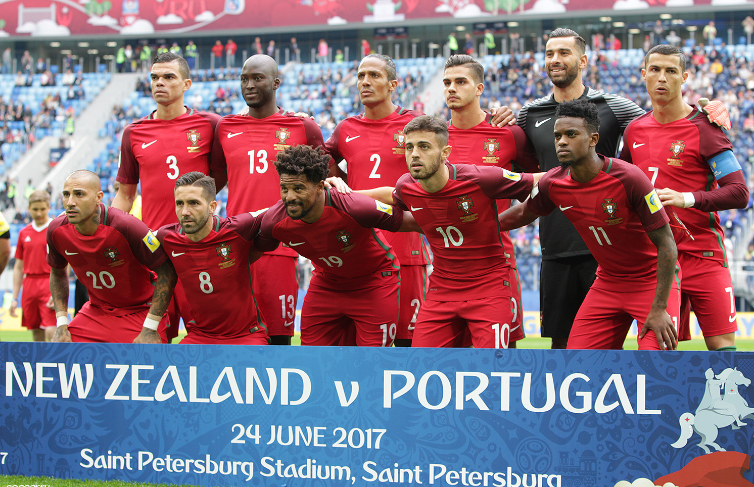 New Zealand VS. Portugal 0 - 4, 24 June 2017